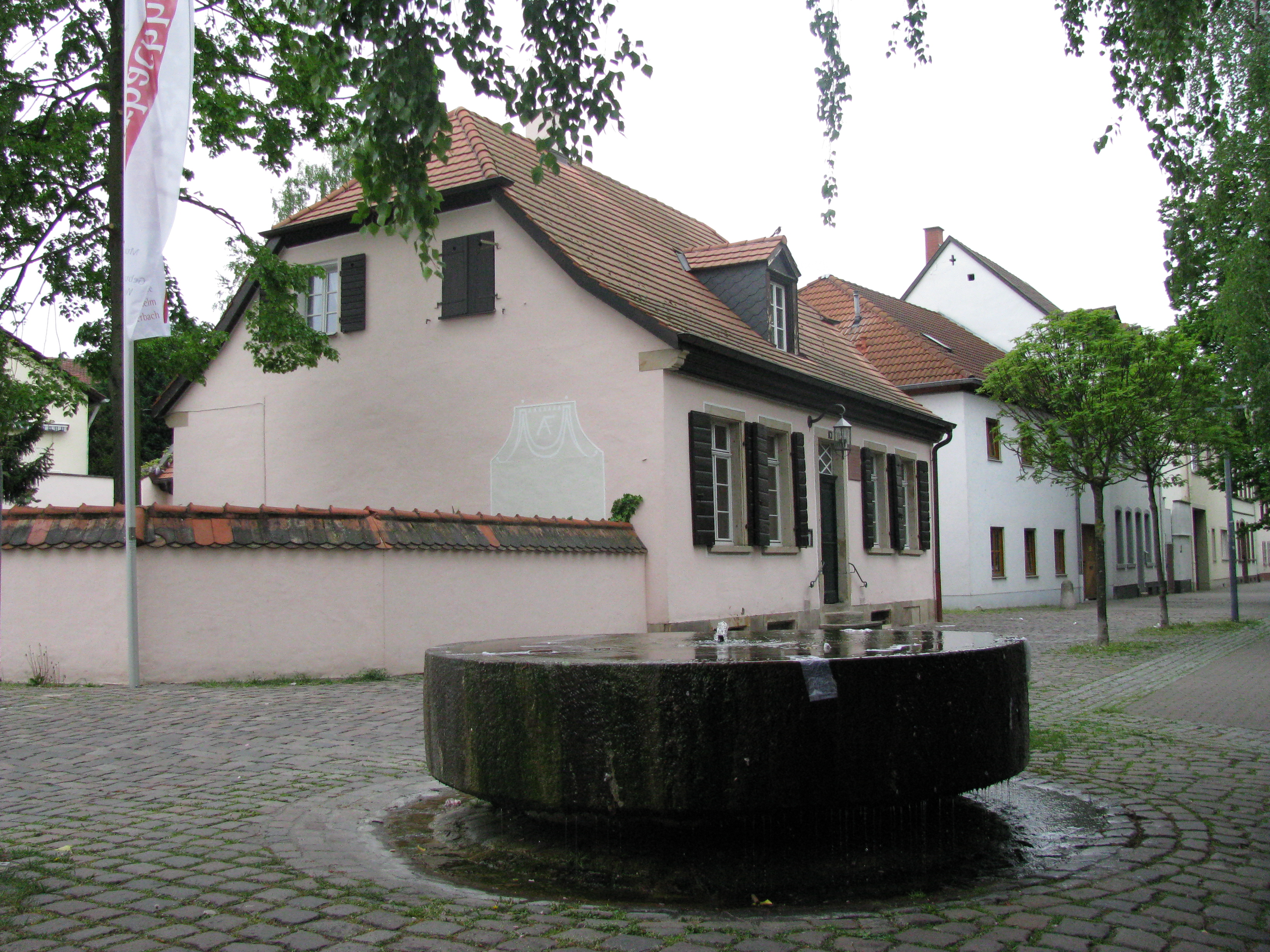 Birth place of Speyer painter Anselm Feuerbach